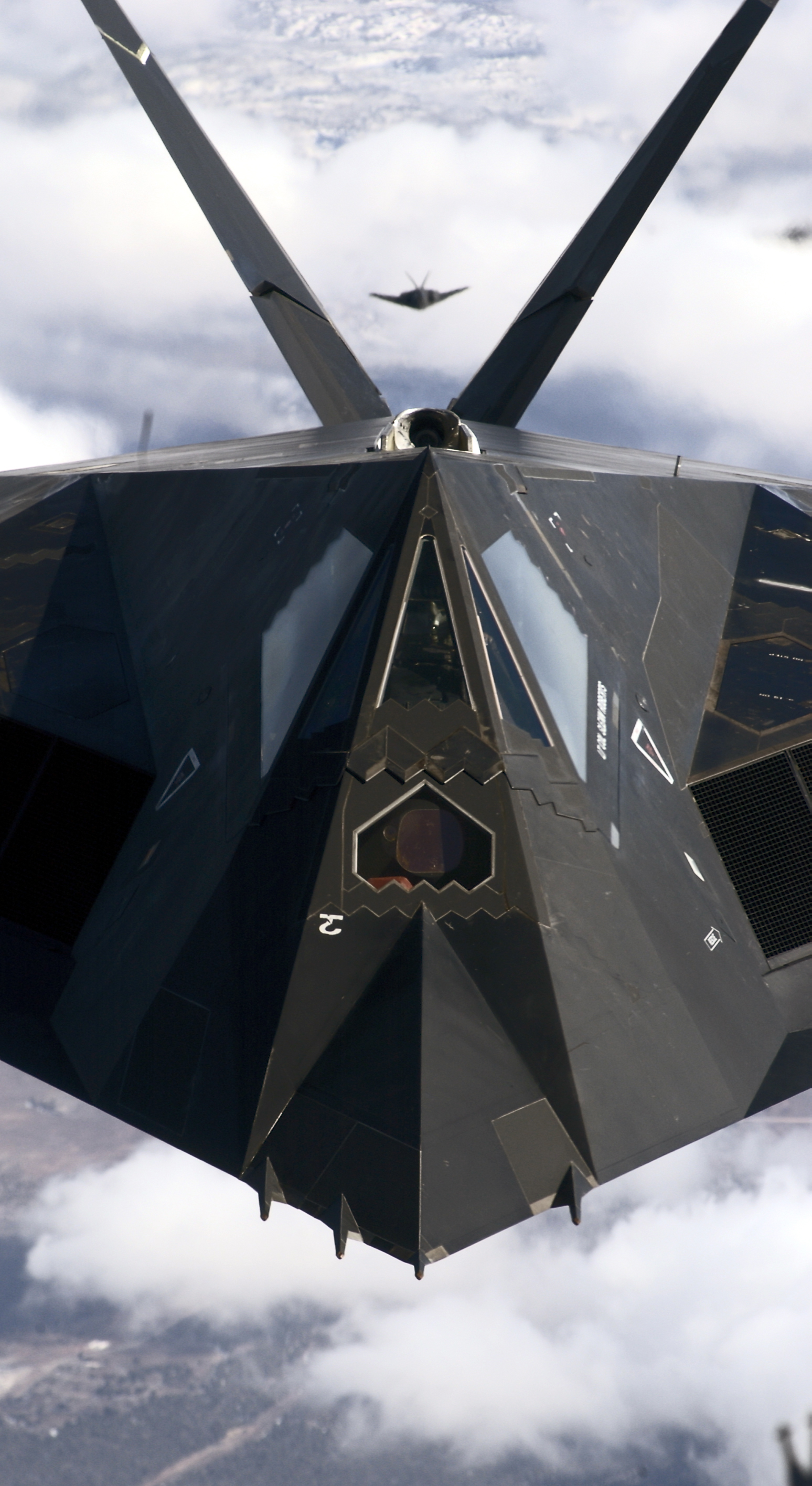 HOLLOMAN AIR FORCE BASE, N.M. -- The F-117A Nighthawk is the world's first operational aircraft designed to exploit low-observable stealth technology. This precision-strike aircraft penetrates high-threat airspace and uses laser-guided weapons against critical targets.